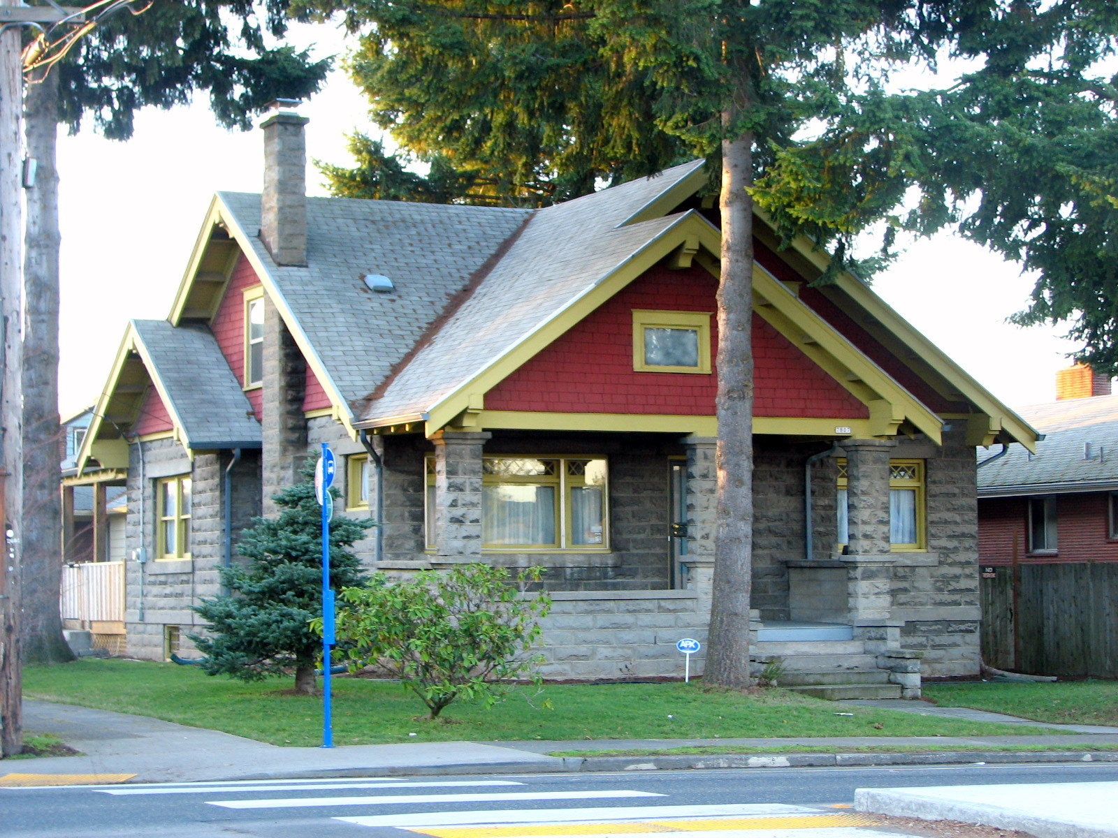 The historic Thomas M. and Alla M. Paterson House (built 1909), located at 7807 North Denver Avenue in Portland, Oregon, United States, is listed on the US National Register of Historic Places.